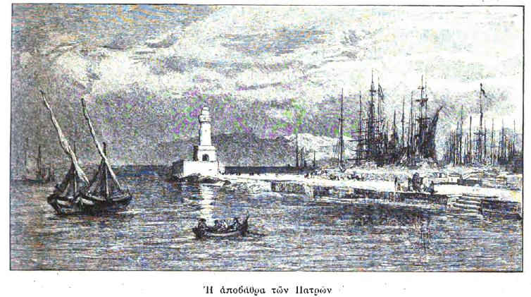 Hestia (1876) Author: Diomedes, Paulos Subject: Greek literature, Modern; Greek periodicals Publisher: [Athēnēsi : s.n. Year: 1894 Possible copyright status: NOT_IN_COPYRIGHT Language: Greek Digitizing sponsor: Google Book from the collections of: Harvard University Collection: americana]